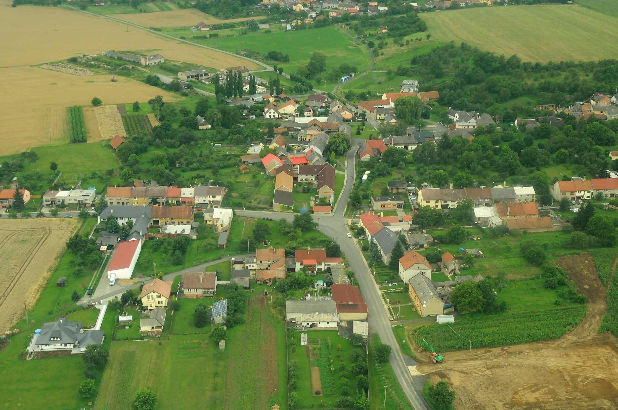 Radvanice, district Prerov, Czech Republic